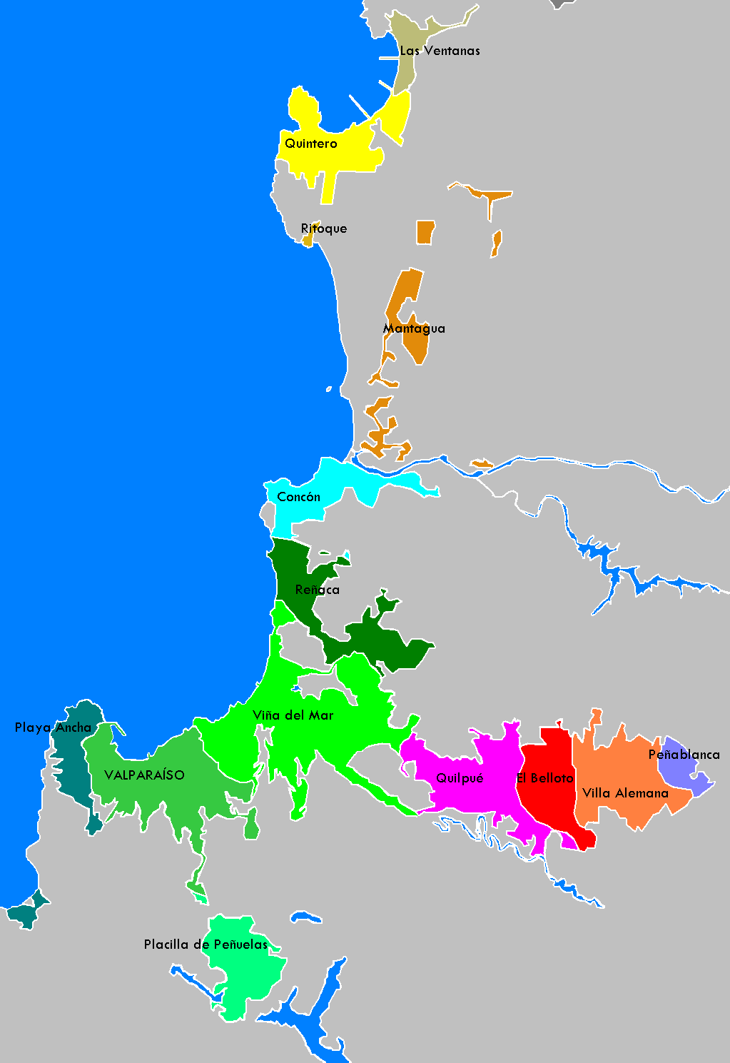 Map of the Greater Valparaiso, Chile, considering all residential and productive urban areas existing at the date, contained within the limits set by Article 7 of Decree No. 30/1965, Ministry of Public Works, of 1st March 1965 approving the Valparaiso Ordinance and Intercommunal Masterplan. The considered surfaces (based on work of imblue1982) fall under the status immediately before the coming into force of the new Metropolitan Masterplan for Valparaíso, PREMVAL, 2012.